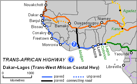 Dakar-Lagos Highway, plus a variant route (in black) which is more useable.